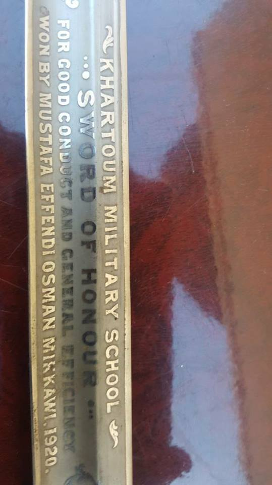 تم منحه سيف الشرف عند تخرجه في المدرسة الحربية بالمملكة المصرية 1920